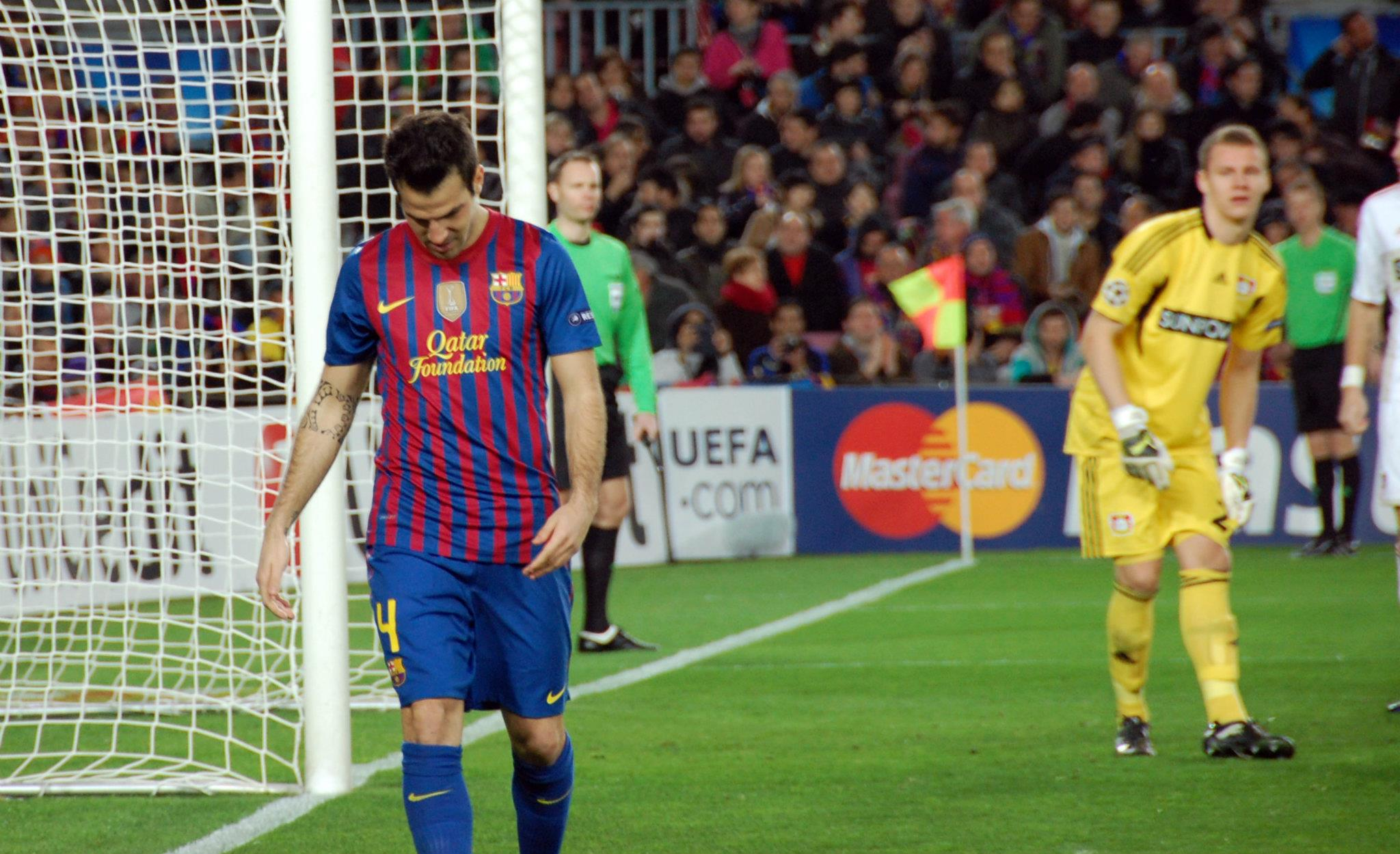 FC Barcelona - Bayer 04 Leverkusen, 1/8 Final UEFA Champions League, Season 2011/2012